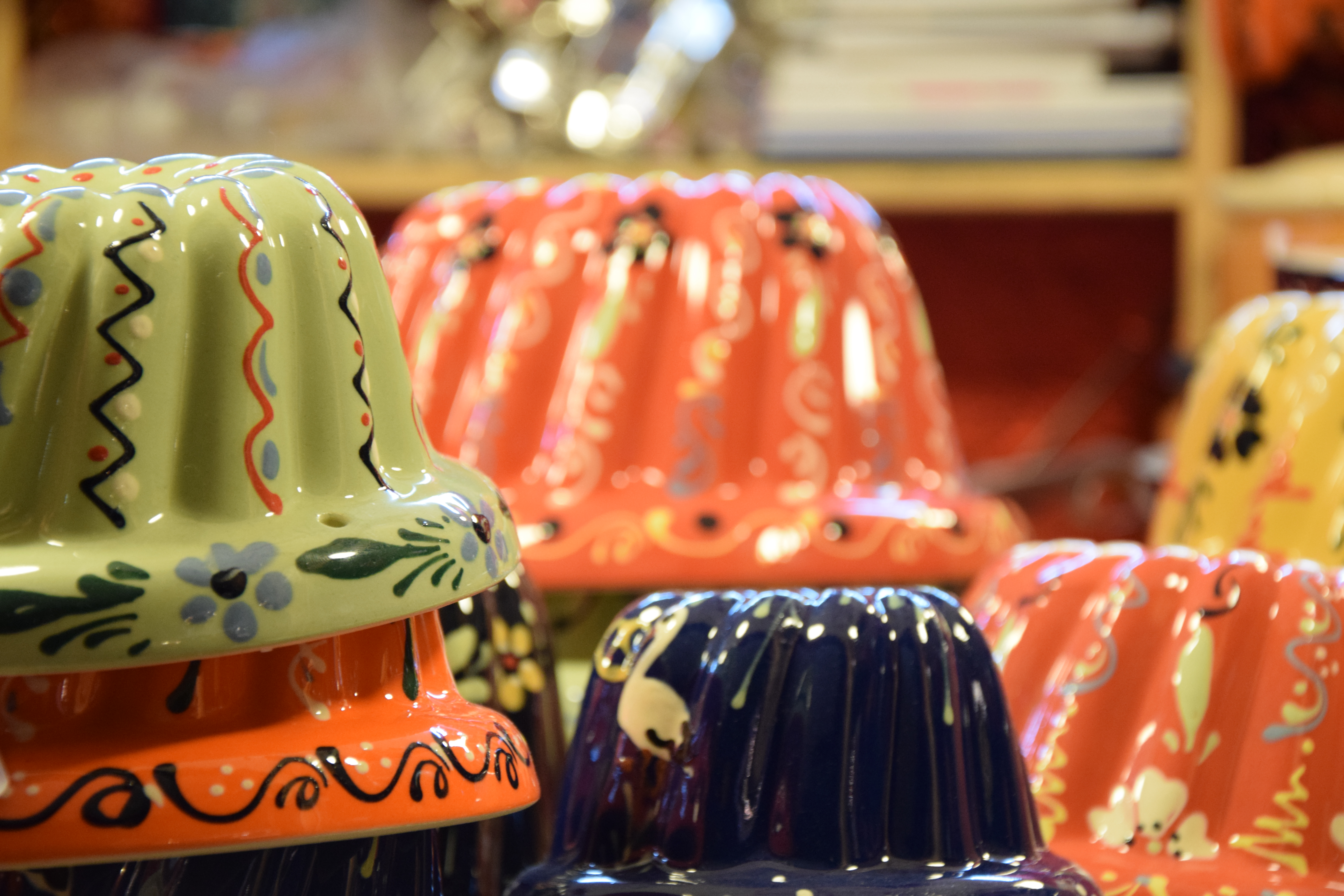 Gugelhupf Dish